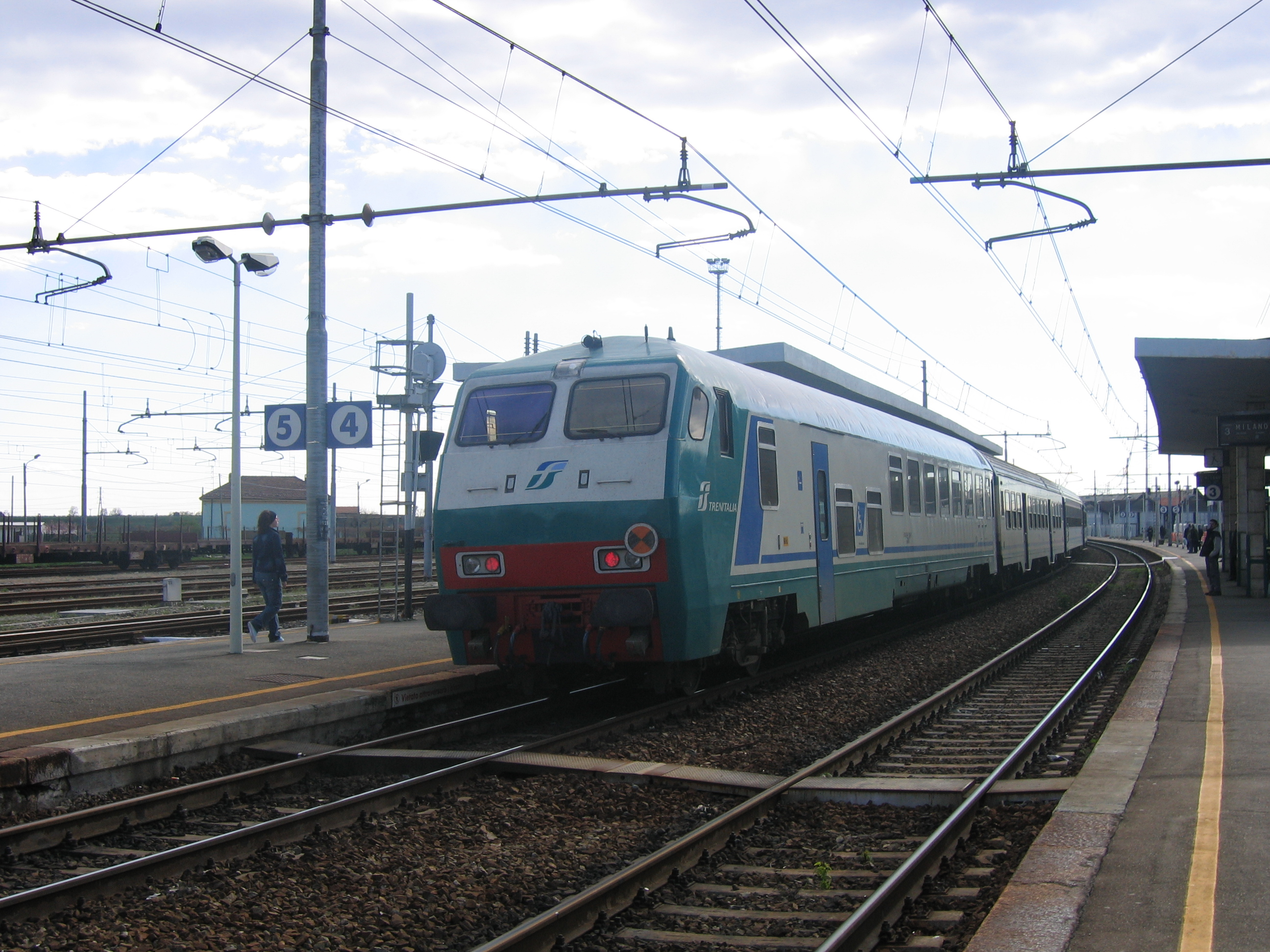 UIC-X rebuilt pilot car. Santhià (TO), Italy